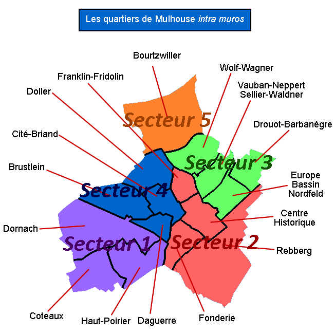 districts of Mulhouse-city